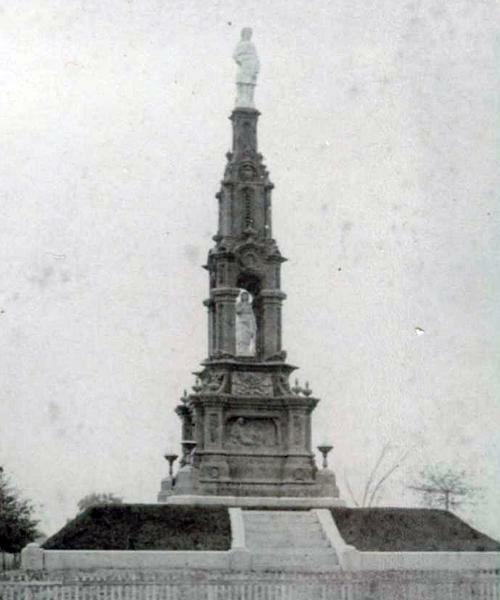 Picture depicting the Confederate Monument in Forsyth Park in Savannah, Georgia. This picture was taken before 1879, as after that year, the two women statues were removed and replaced with a bronze statue of a soldier.